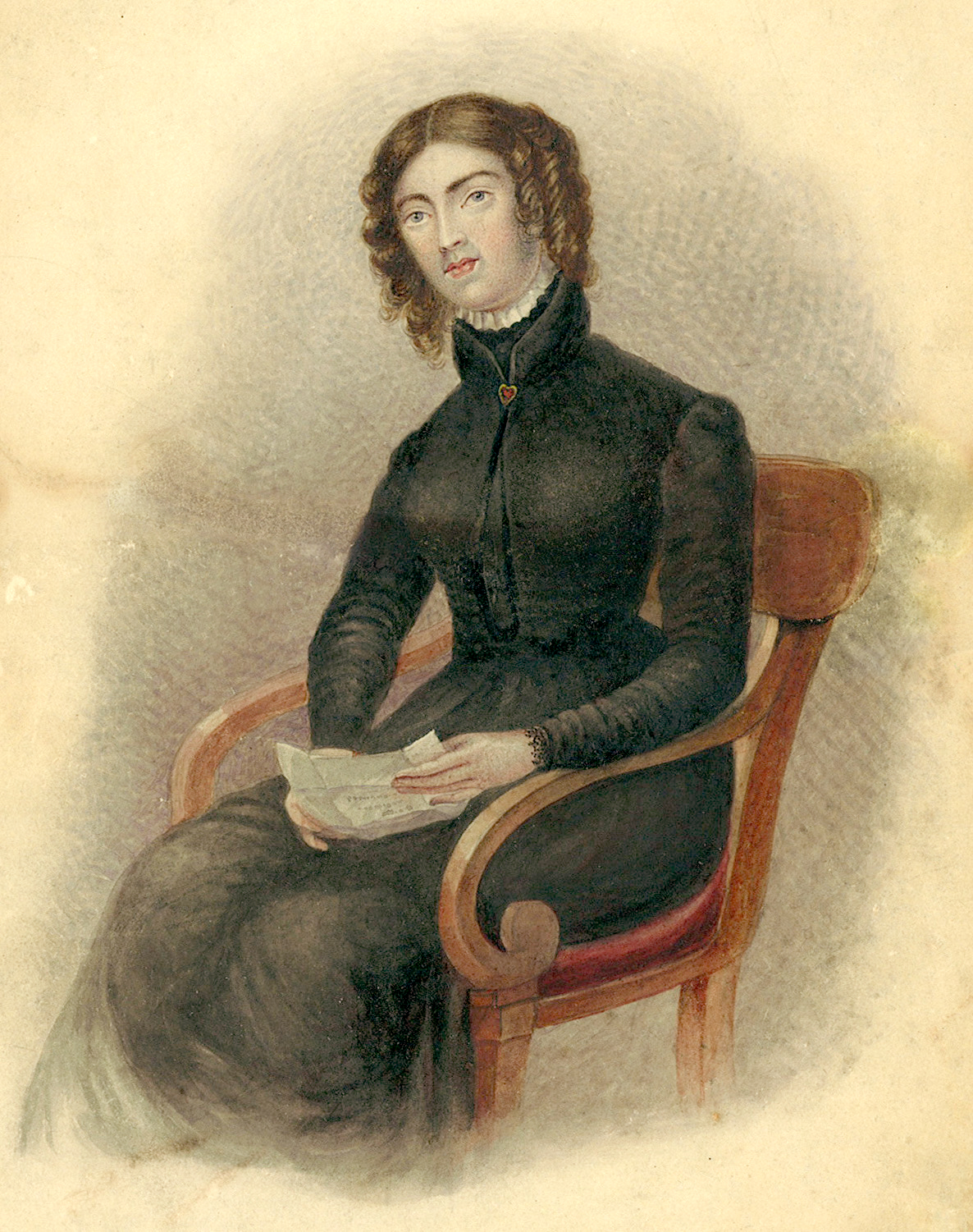 Watercolour portrait of Anne Lister of Shibden Hall. Probably the portrait painted by a Mrs Taylor on Wednesday 20 and Thursday November 1822, as described in Lister's diary: "Wednesday 20 November [Halifax] At 12:40, too George in the gig & drove to Mrs Taylor's. Sat for my likeness perhaps 1 1/4 hour. Very well satisfied with the sketch. There is something so very characteristic in the figure. Paid for it, 2 guineas... Neither Mrs Rawson nor Catherine thought it a good likeness. Found great fault with the mouth &, at first, with almost every part of the whole thing. Thursday 21 November [Halifax] ...Went to Mrs Taylor... sat nearly an hour during which she closed the mouth, improved the picture exceedingly & made it an admirable likeness... Got home at 2.25. The likeness struck me as so strong I could not help laughing. My aunt came up & laughed too, agreeing that the likeness was capital. Ditto my uncle. We are all satisfied, let others say what they may." Anne Lister reveals her true feelings nine months later: 30 August 1823 "Mrs Taylor's sketch of me, like a person afraid of speaking. Too foolish looking. Could not bear it. Not at all characteristic." Diary citation, SH:7/ML/E/7/0061